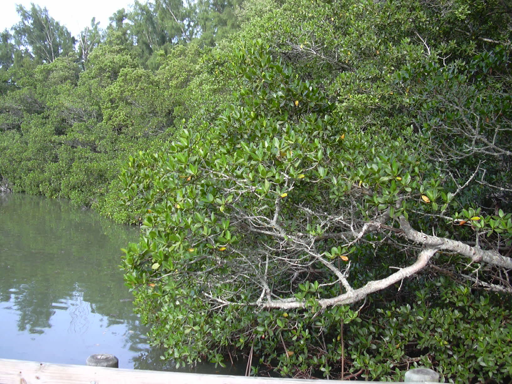 Mangrove. Location: Florida, South Lido Beach